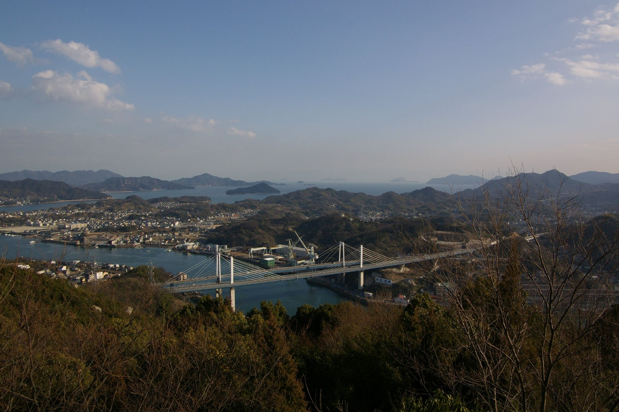 The Onomichi Bridge